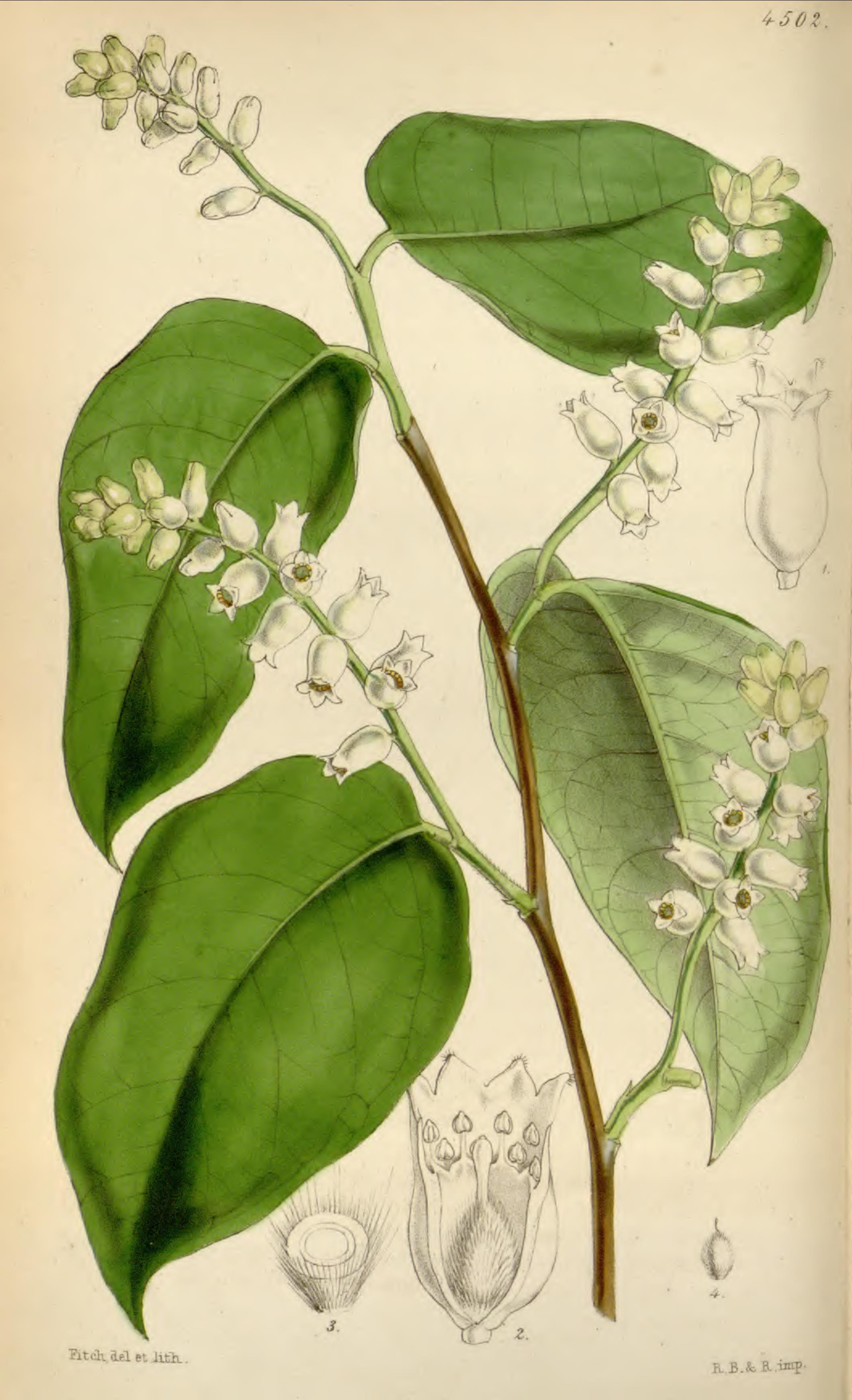 Lagetta lintearia Lam. = Lagetta lagetto (Sw.) Nash